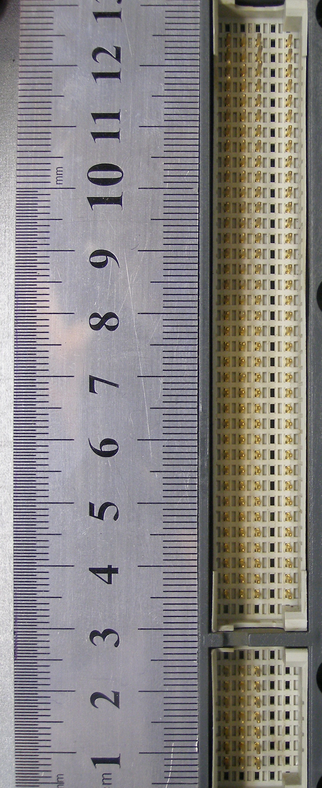 Siemens S7-400 rack connector.